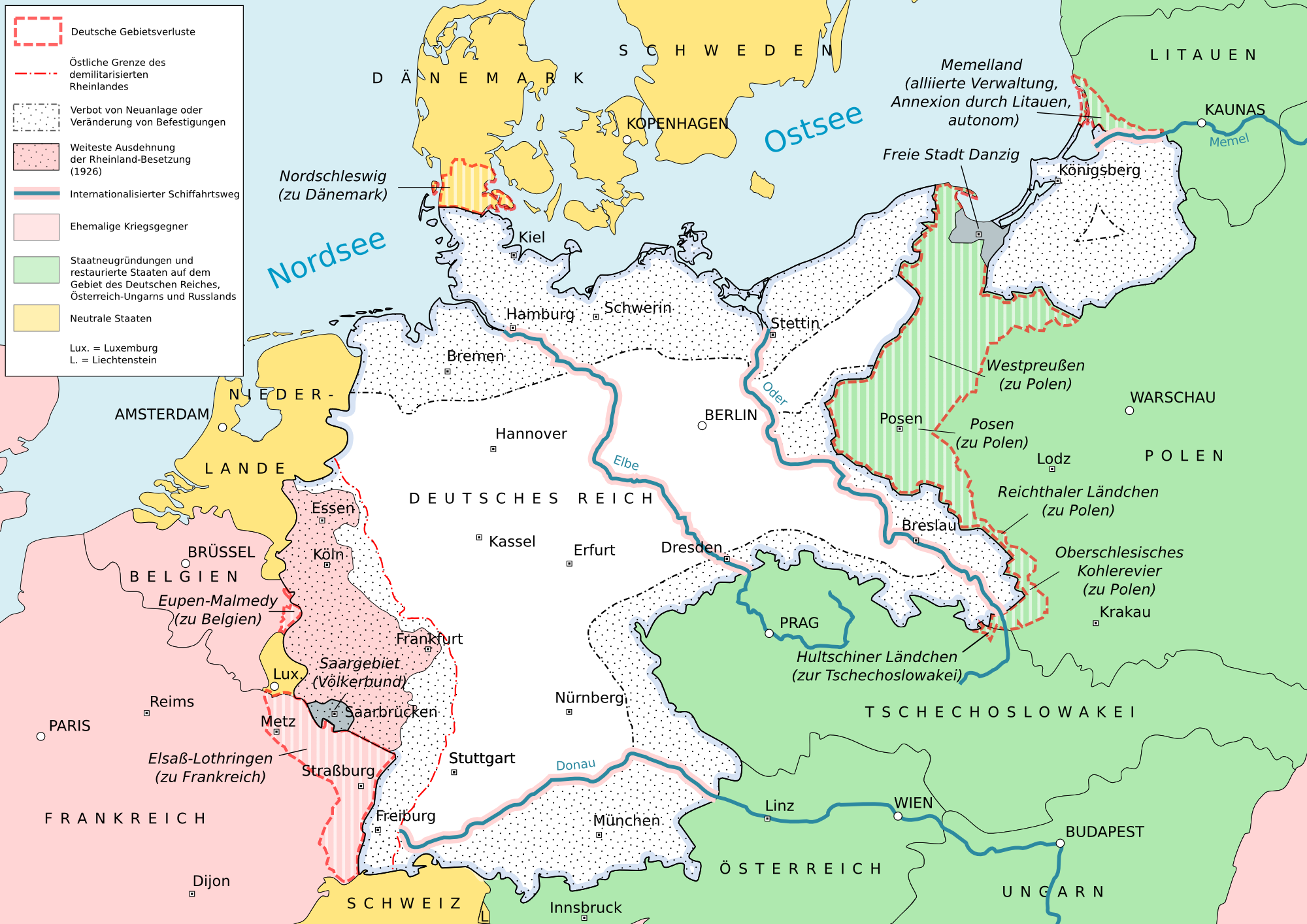 Results of the Versailles Treaty